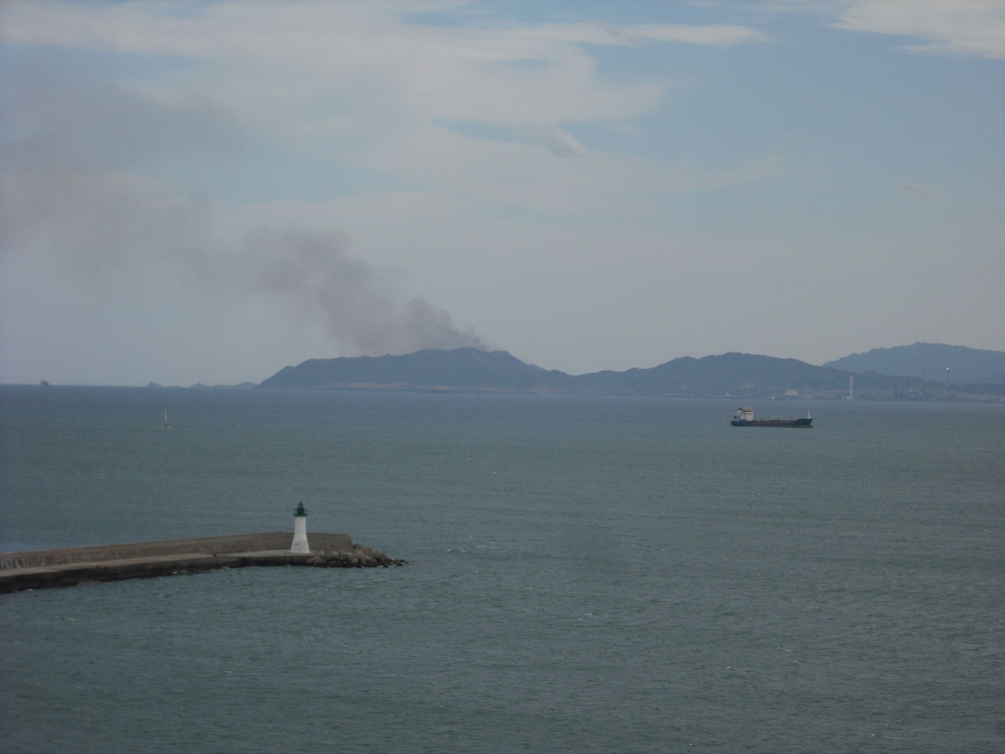 One of the 2009 southern Europe wildfires located just south-west of Cagliari, Sardinia.